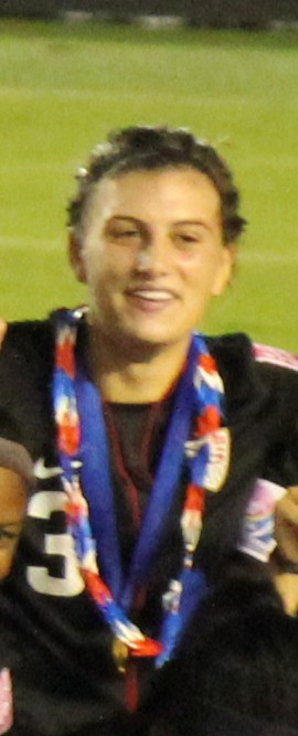 Cari Roccaro FIFA U20 World Cup Japan 2012